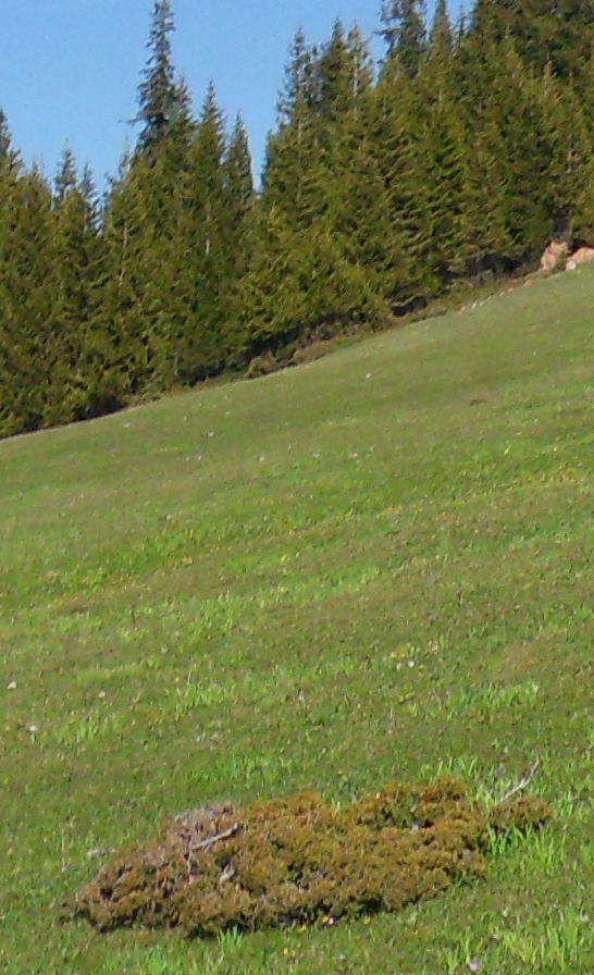 Juiperus semiglobosa in native habitat